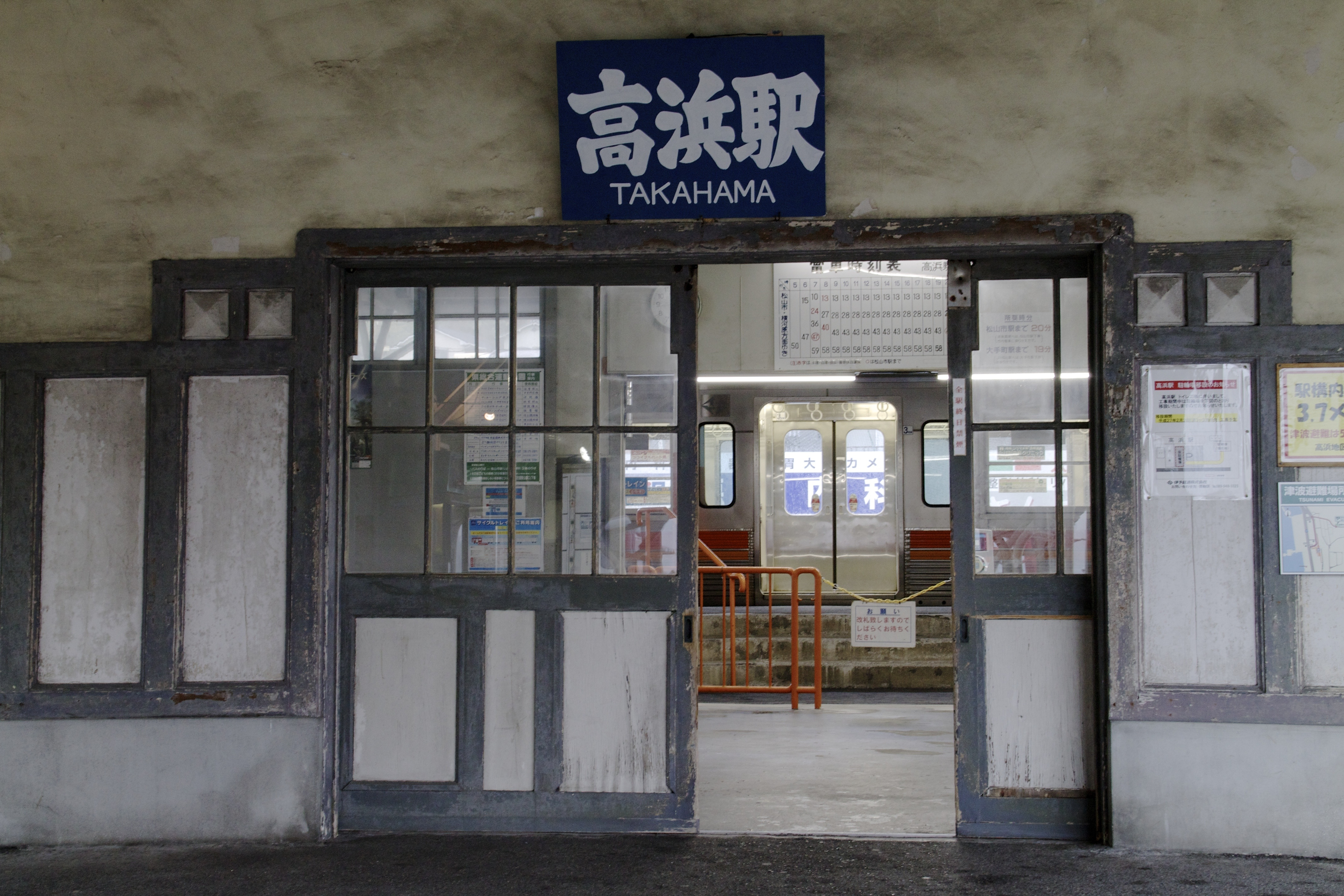 Takahama Station in Ehime Prefecture, Japan